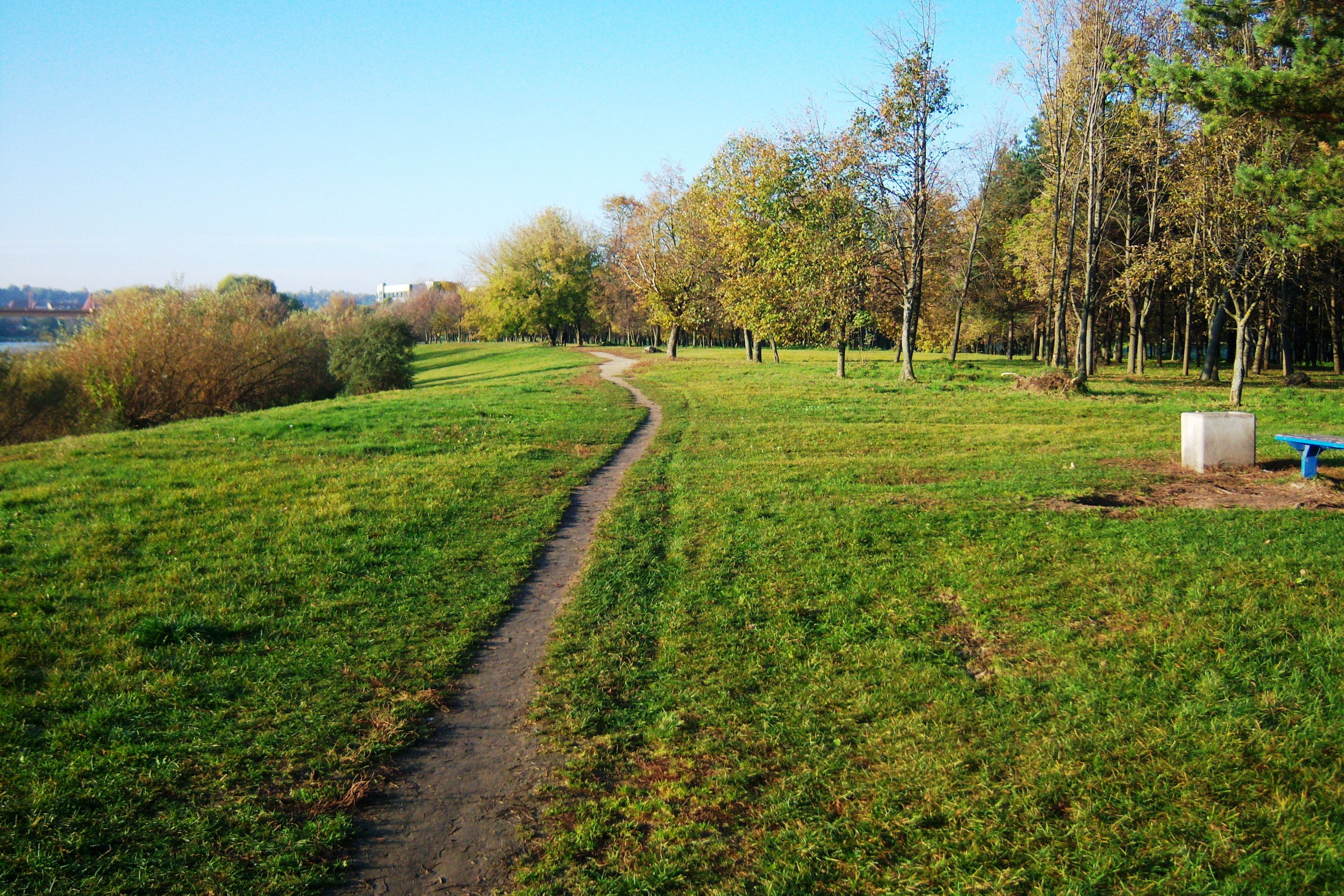 Neris Embankment Park, a walking path by the river, Kaunas, Lithuania